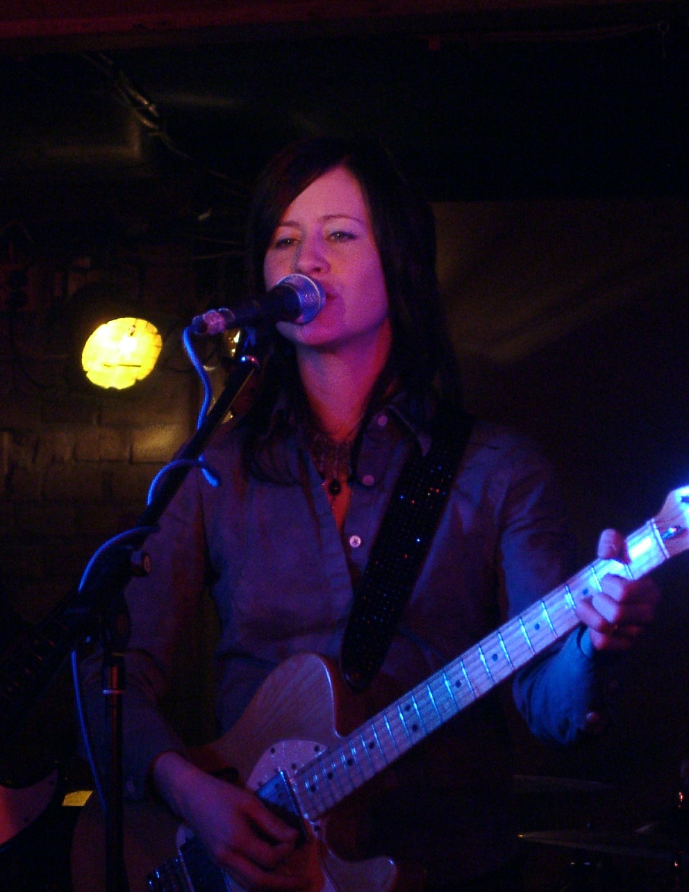 Orenda Fink at a show in Berlin on December 5, 2005